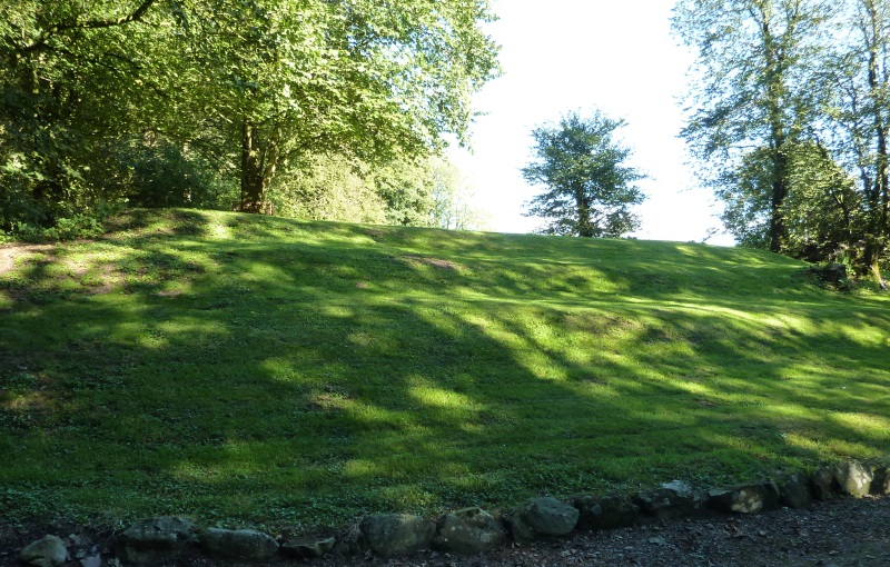 Sorbie Motte, Sorbie, Dumfries and Galloway, Scotland.